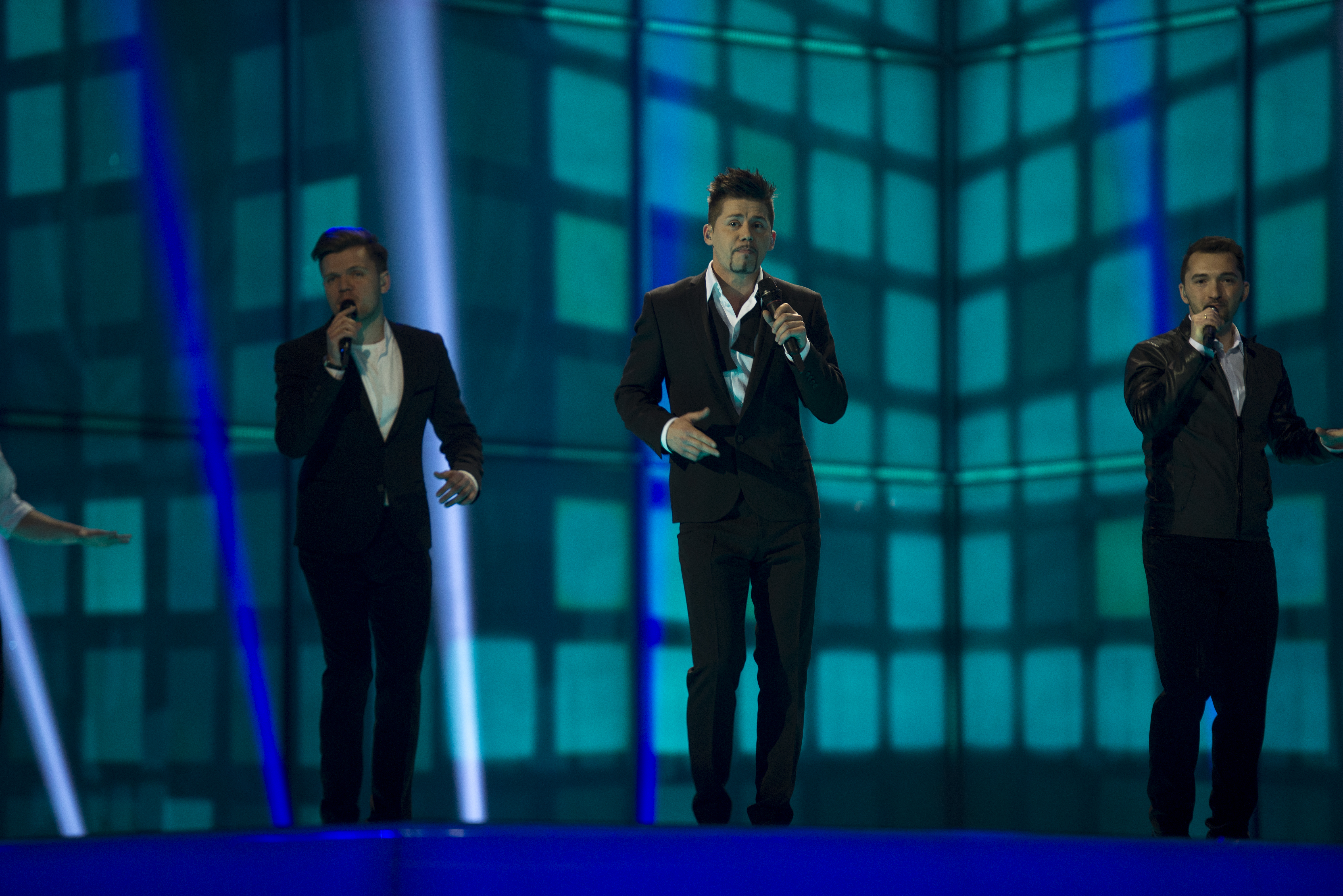 Teo representing Belarus with the song "Cheesecake" during the first dress rehearsal of the second semi final of the Eurovision Song Contest 2014 Copenhagen. (Help translate this text)